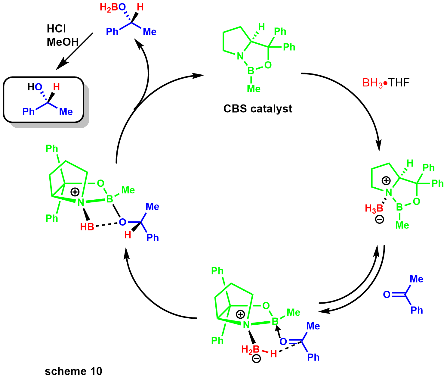 detailed CBS mechanism